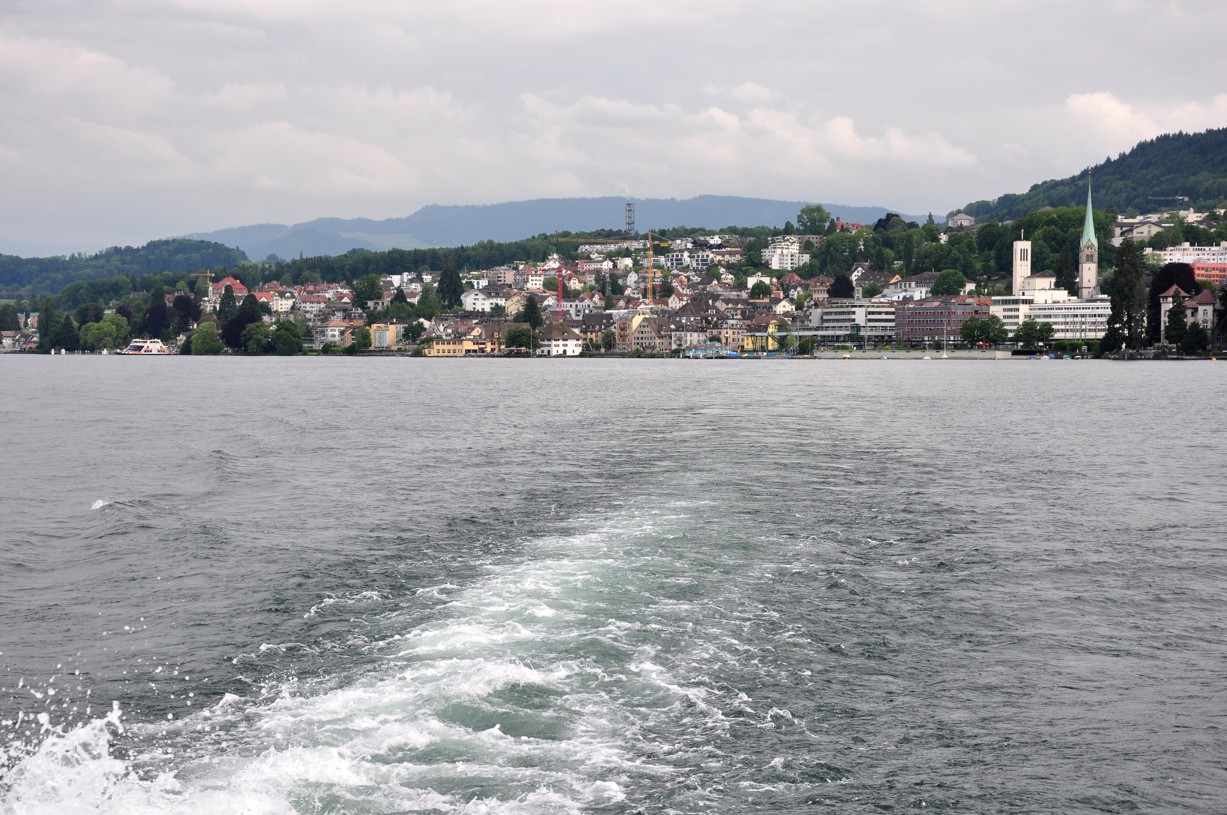 Horgen (Switzerland) as seen from ZSG motorship Wädenswil